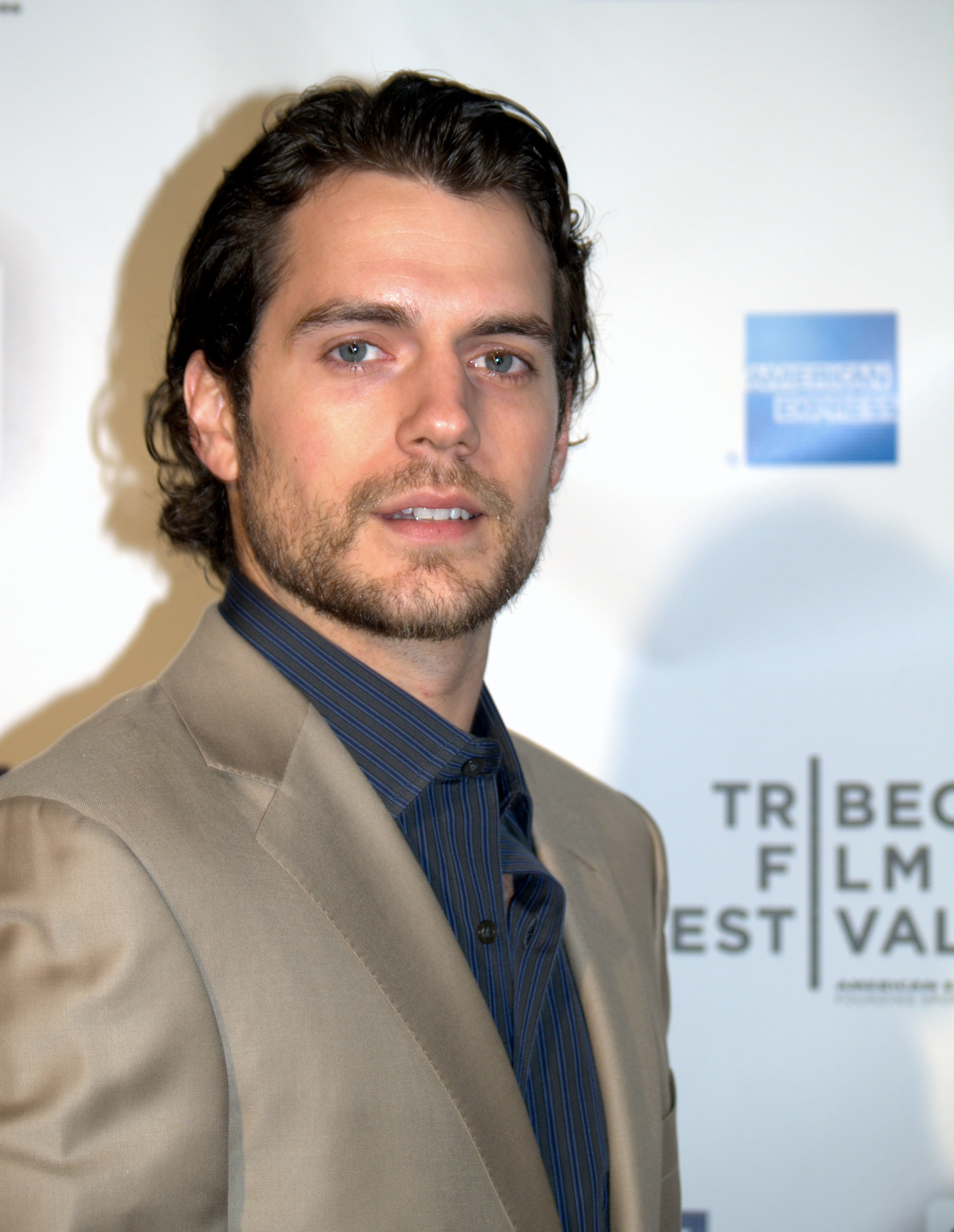 Henry Cavill at the 2009 Tribeca Film Festival premiere of Whatever Works.